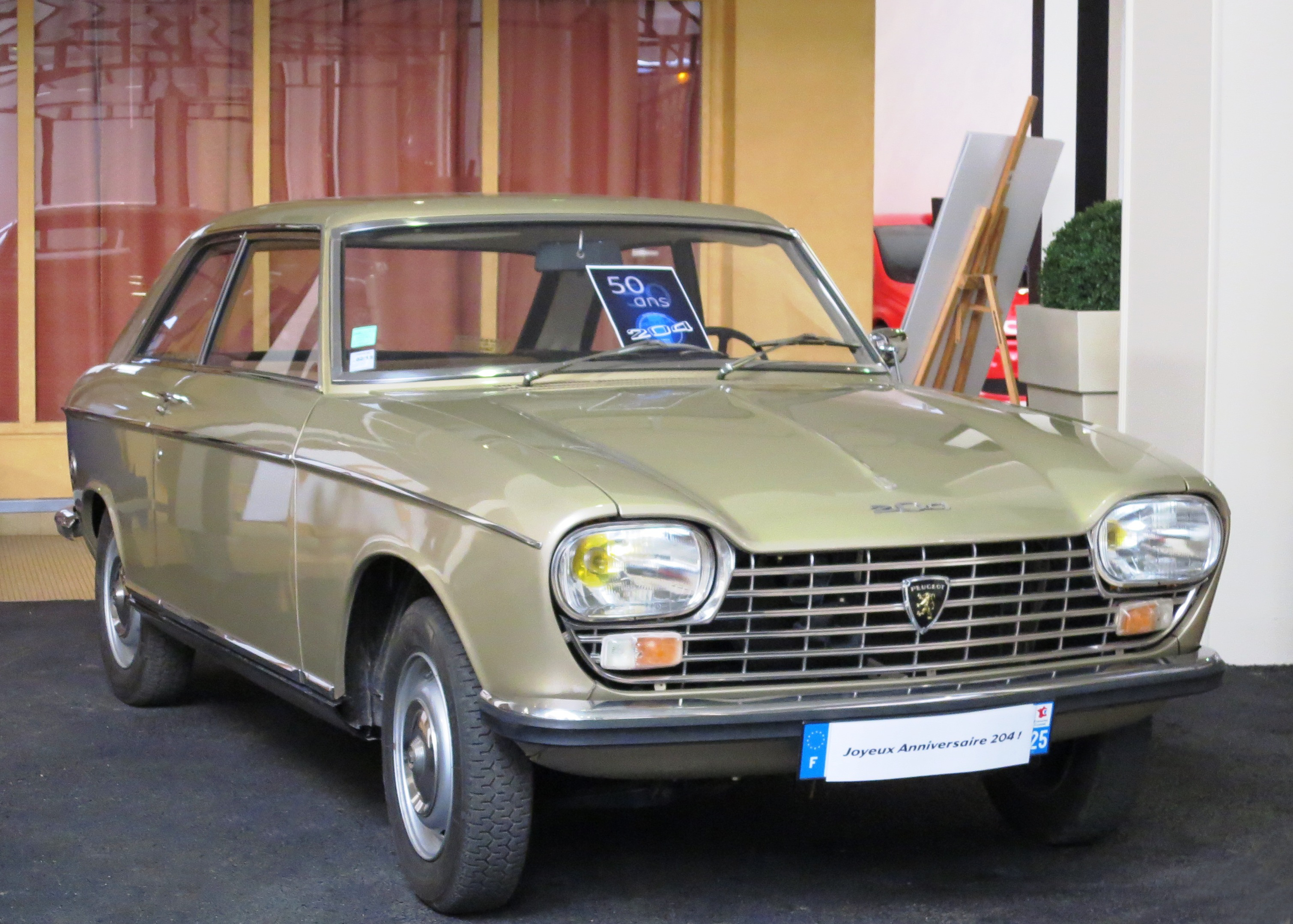 Peugeot 204 Coupé According to the notice in the Peugeot Museum (2015) 1,604,296 Peugeot 204s were constructed. Of these, 42,756 were 204 Coupés